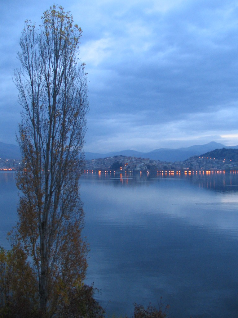 Kastoria, Greece in a winter evening